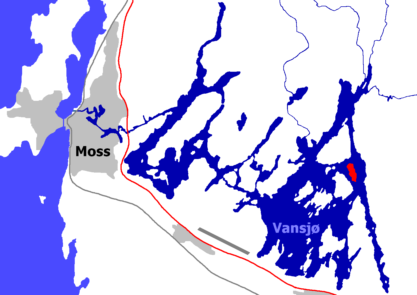 Map of the lake Vansjø. The island of Tombøya in red. Created by JohnM 21:41, 20 May 2006 (UTC)